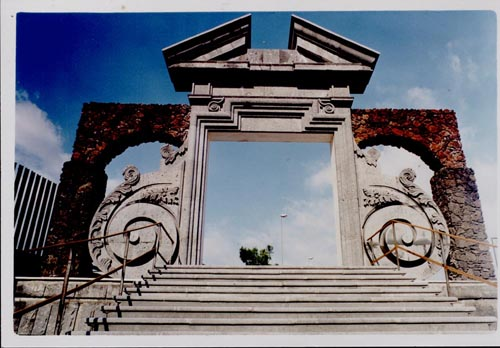 The square I Viceré is a Catania square